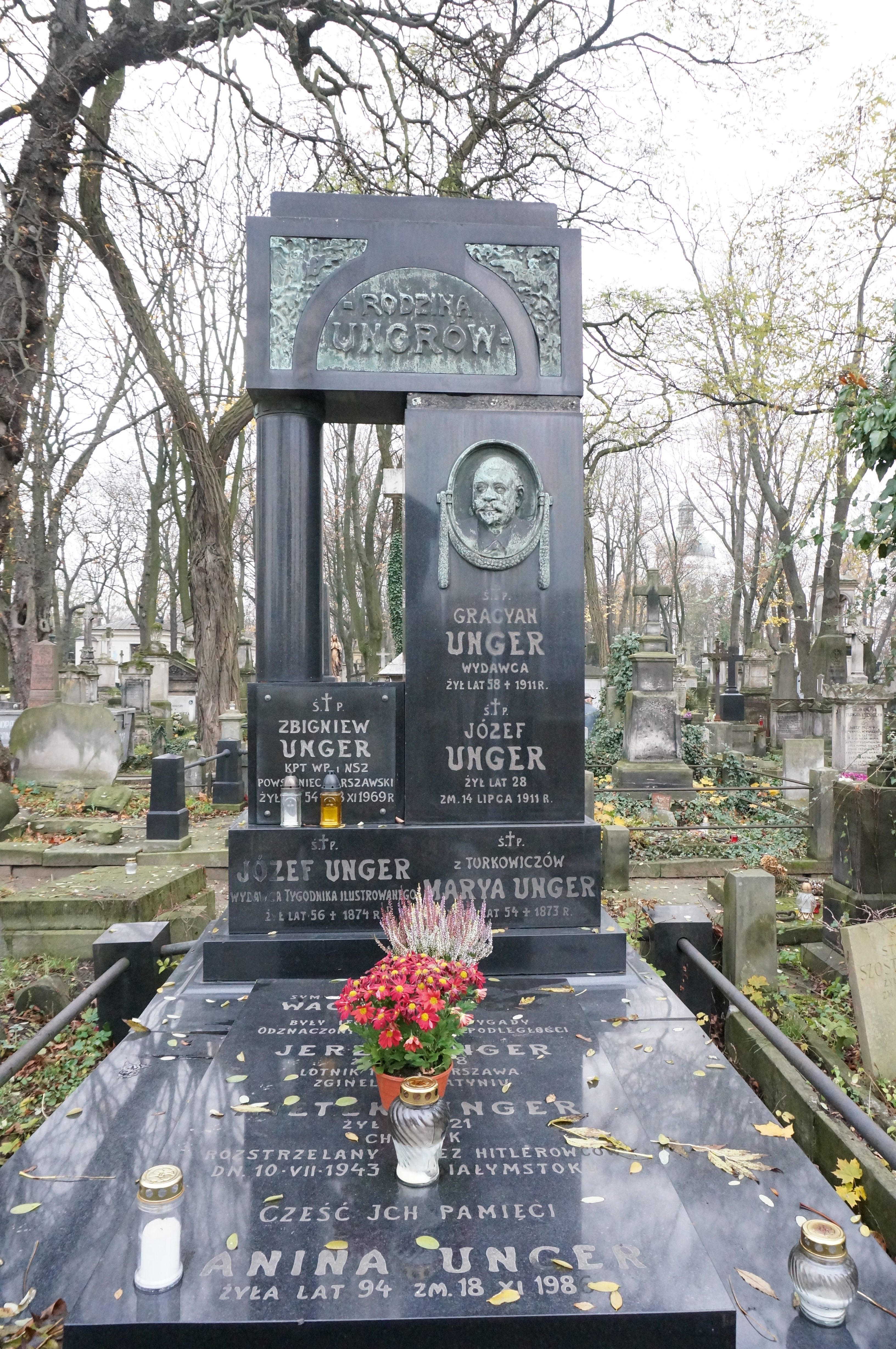 The grave of Józef Unger at the Powązki Cemetery (section 156, row 3, grave 16-17)